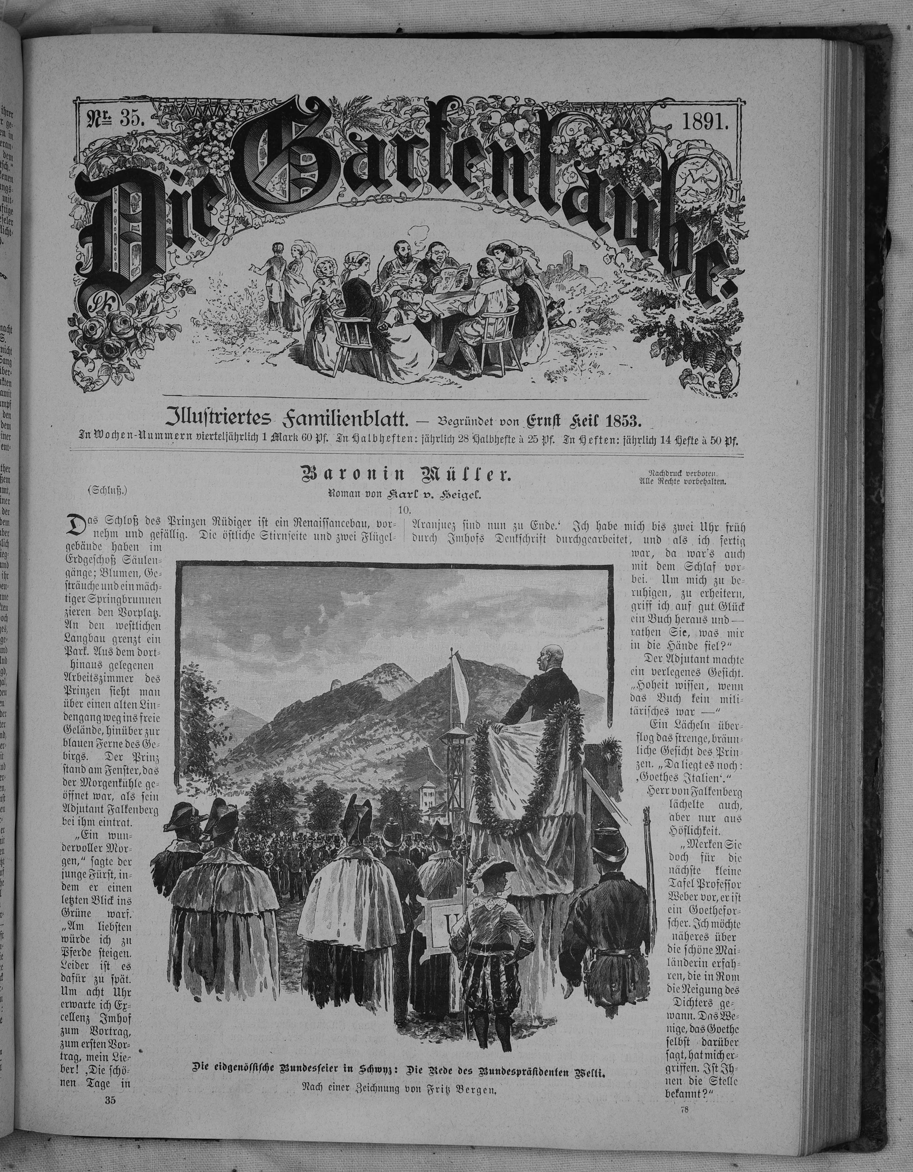 Page 581 from journal Die Gartenlaube for 1891. Extracted image (if any): File:Die Gartenlaube (1891) b 581.jpg - hi res, ~2.5 MB.